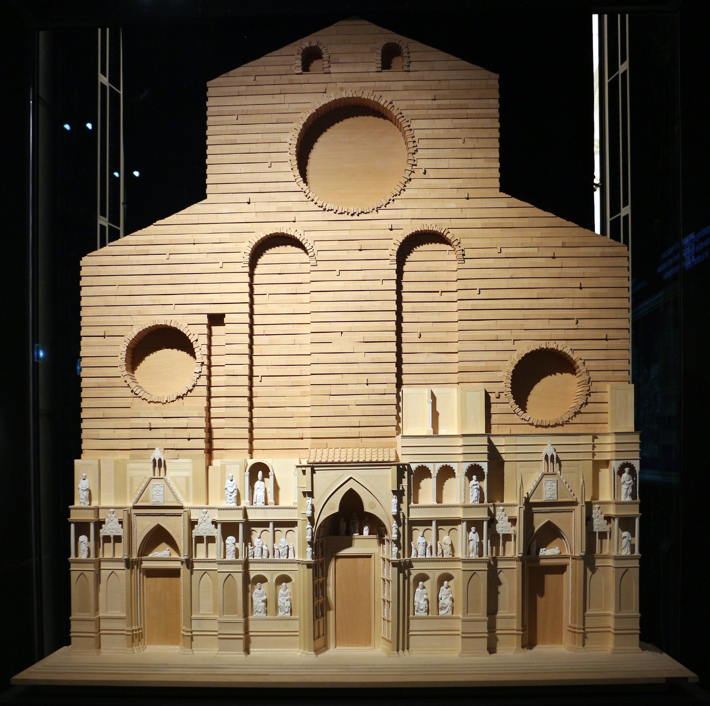 Museo dell'Opera del Duomo (Florence)